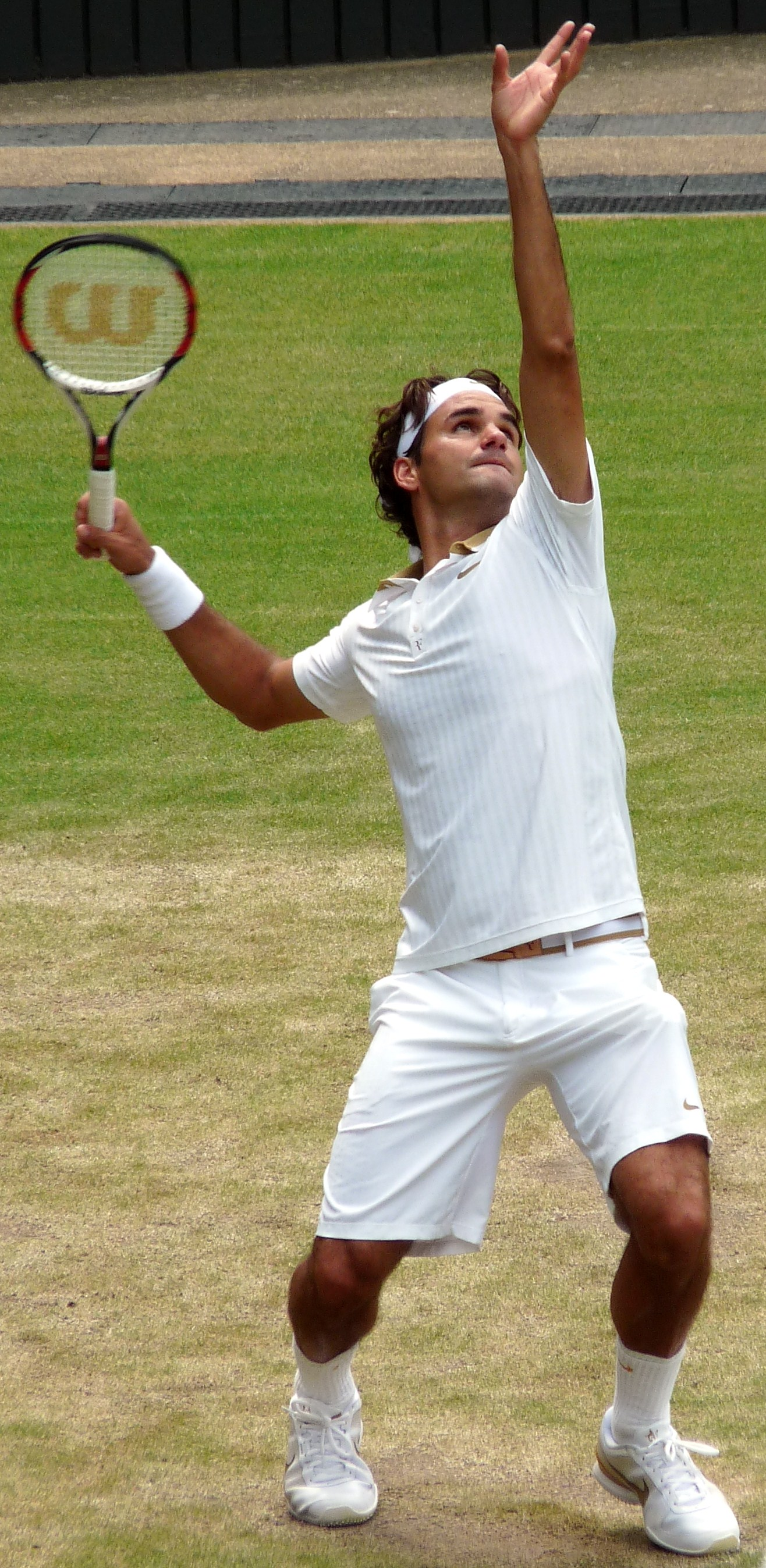 I'm quite chuffed with how the camera coped, considering we were quite far back and I was lacking in tripod!